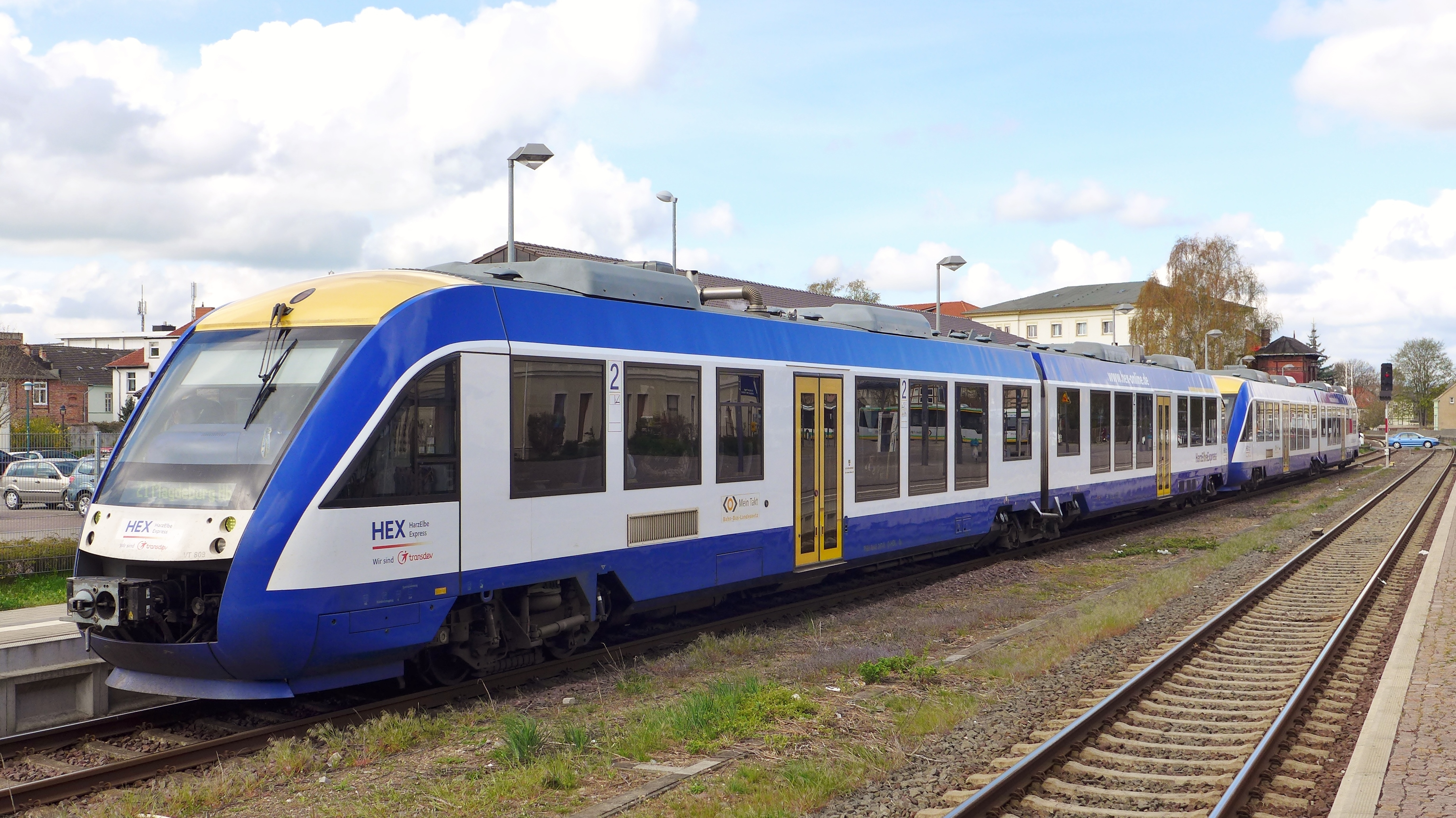 A pair of Transdev Sachsen-Anhalt LINT 41 diesel multiple unit trains headed by set no. VT 809 arrives at Oschersleben (Bode) with a HarzElbe Express train to Magdeburg Hbf.